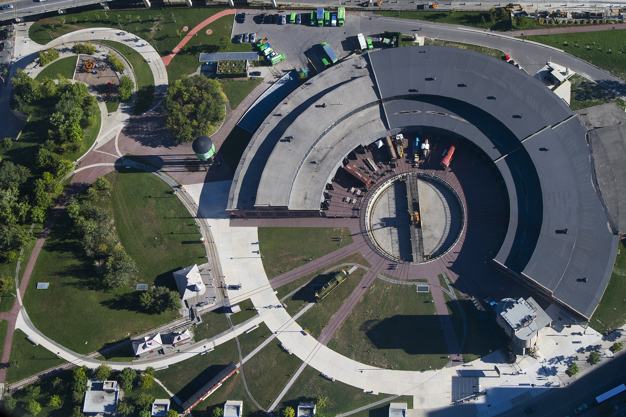 The Roundhouse Park as seen from the CN Tower (September 2012).